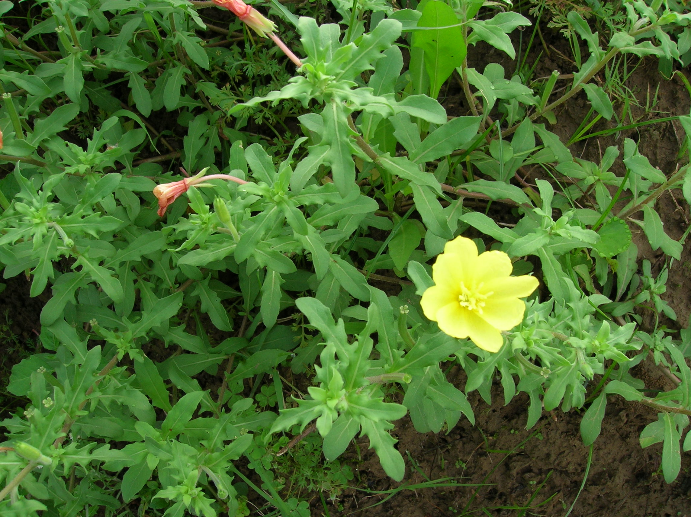 The picture was taken in Taipei 2006 May.It is for Oenothera laciniata Hill.